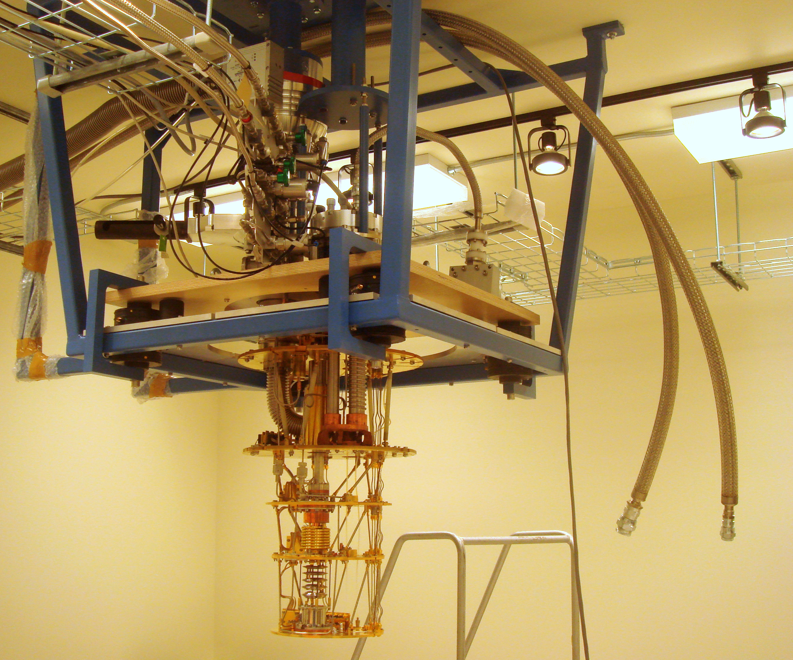 Dilution refrigerator at BBN Technologies, 2009.